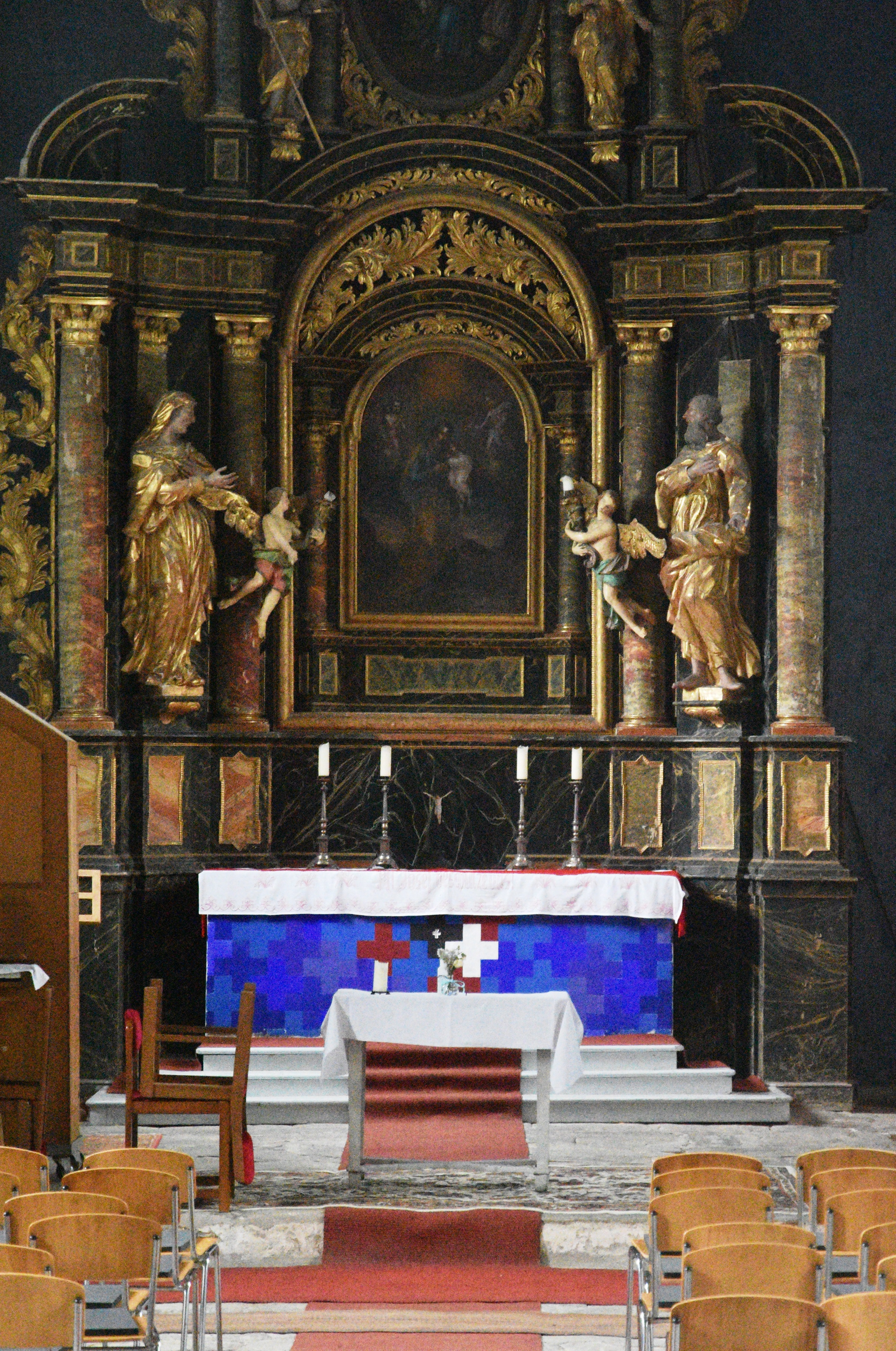 Church Josefskirche Schwanberg, Steiermark - Interior